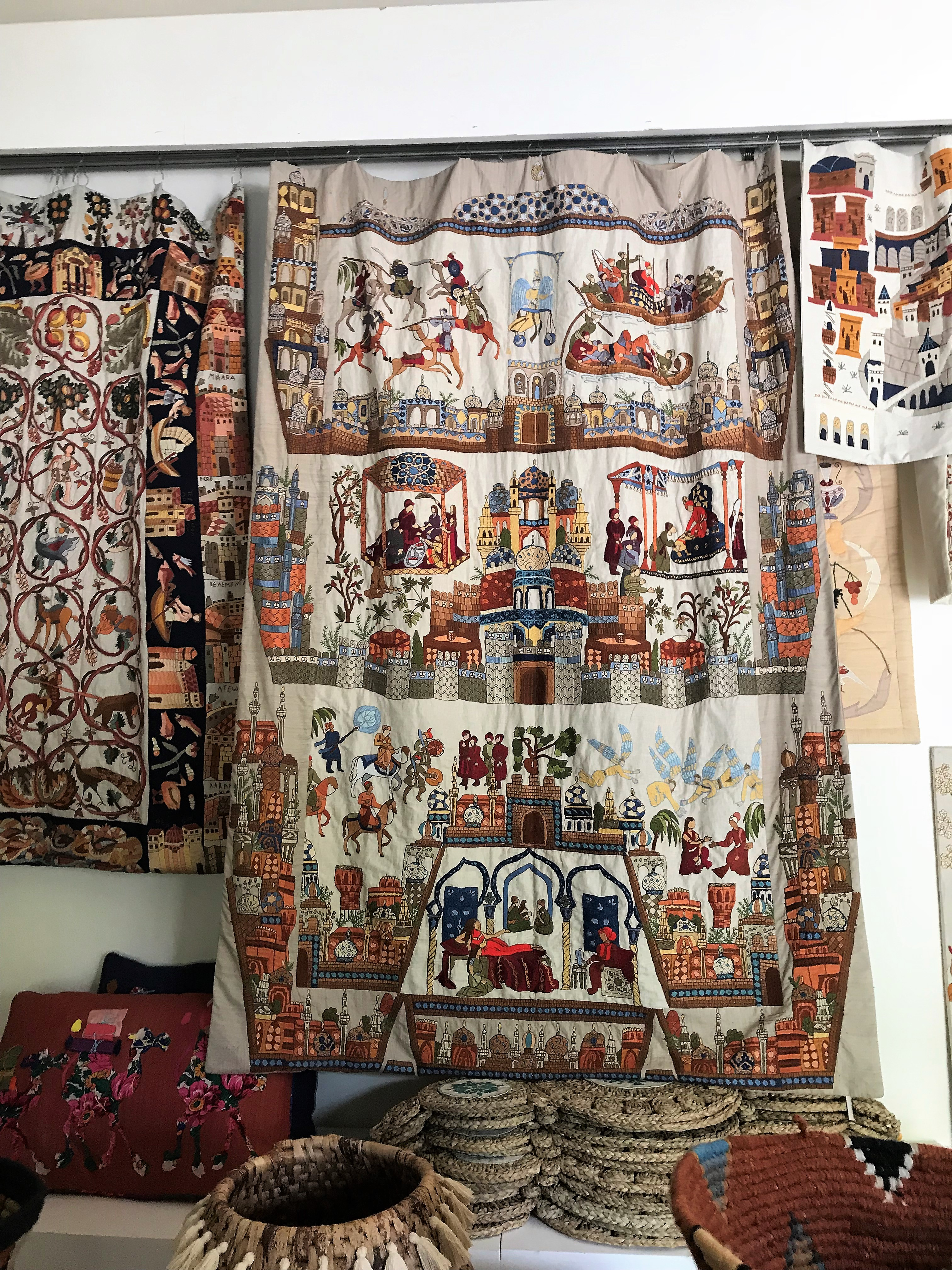 Oriental wall rug, product of Jordan River Society.